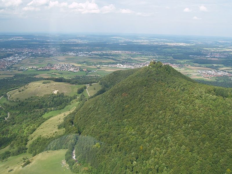 Teckberg, Schwäbische Alb, Germany